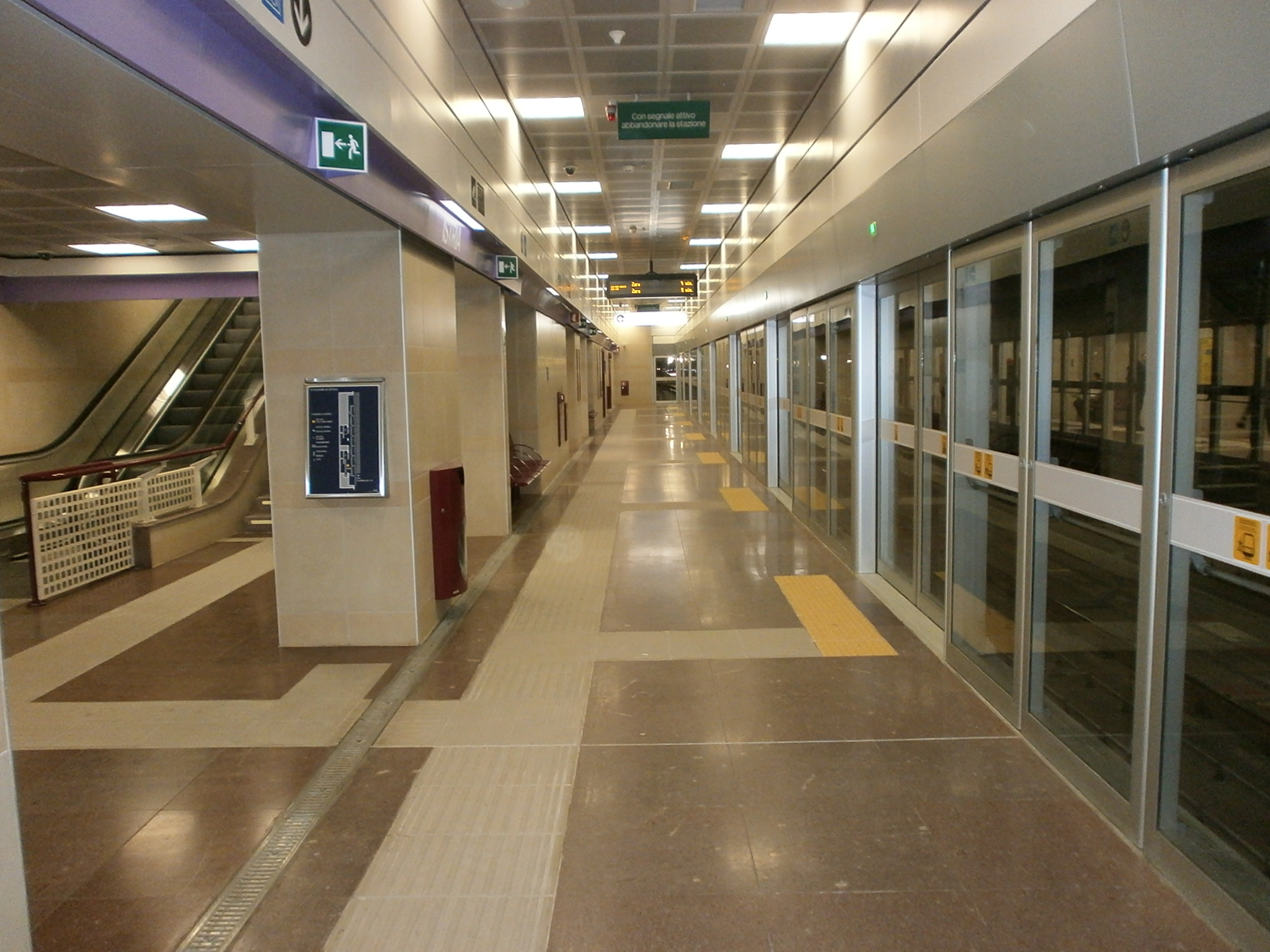 Metropolitana di Milano - linea M5 (lilla) - banchina stazione Istria - Milano